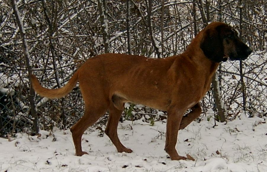 Bavarian Mountain Hound (name: Zoran Spod Ruskiej Granicy)